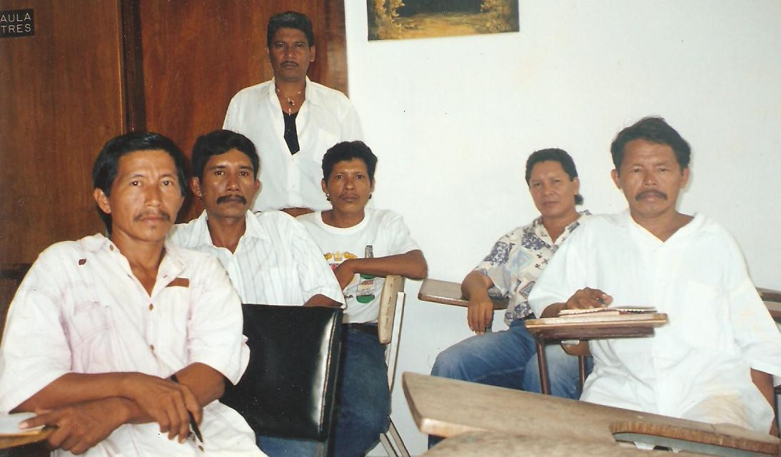 Photograph of George Simon and the Lokono Artists Group in Guyana